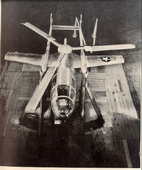 McDonnell XV-1 Wind Tunnel Test